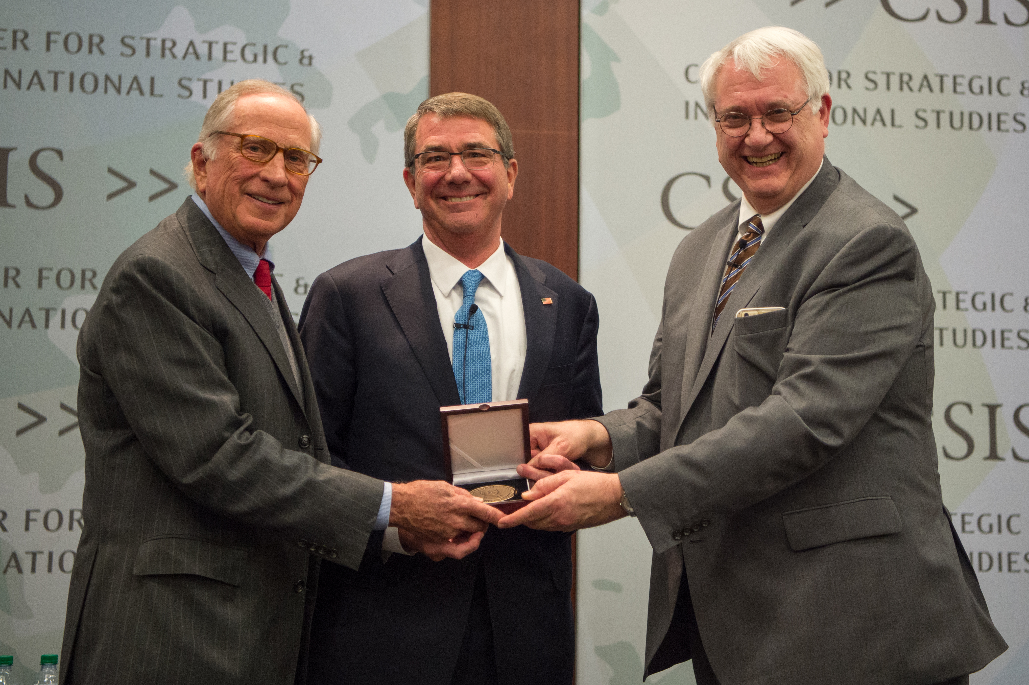 Defense Secretary Ash Carter (center) receives the Sam Nunn National Security Leadership Prize from former Senator and Chairman Emeritus of the Center for Strategic and International Studies (CSIS), Sam Nunn (left) and President and CEO of CSIS, John J. Hamre (right), during a lecture at CSIS headquarters in Washington, D.C., Jan. 11, 2017.